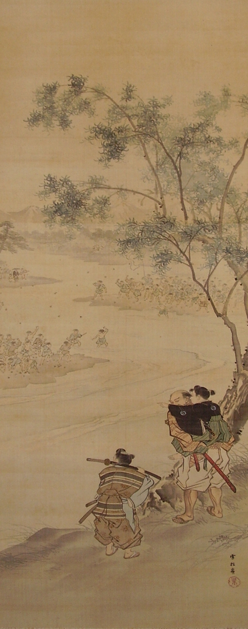 tokugawa ieyasu childhood anecdote.artist not identified.wittig collection.painting-24.test image.cropped and perspective adjusted.01